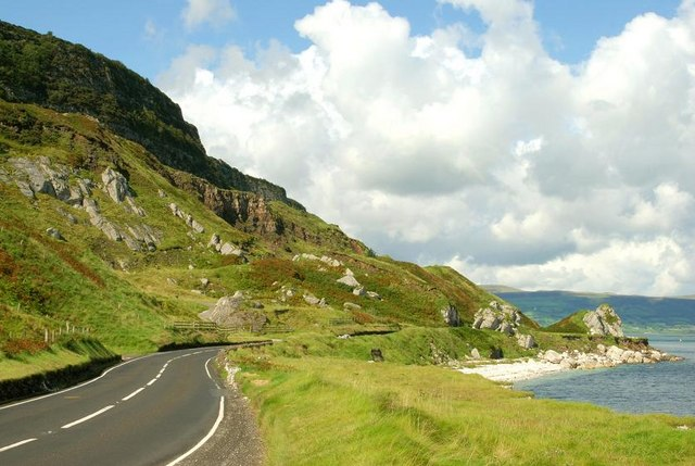 The coast road near Glenarm. See 945999. Approaching Glenarm the road bends to avoid the chalk cliffs. Parts of the road have been subject to subsidence and land slips requiring repairs to the road and sea defences.